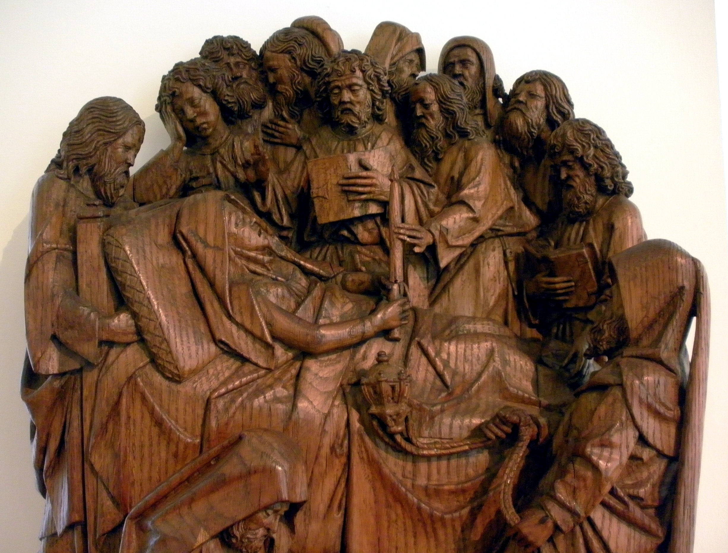 Uden, the Netherlands, Museum of Religious Art. Late medieval wooden relief of the death of the Virgin Mary by Adriaen van Wesel (c 1475-77).